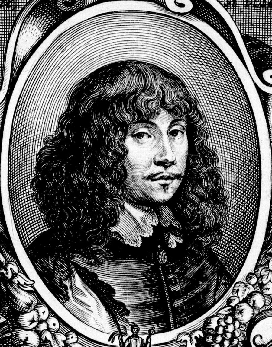 Drawing of guitar baroque player and composer Francesco Corbetta (ca. 1615–1681)